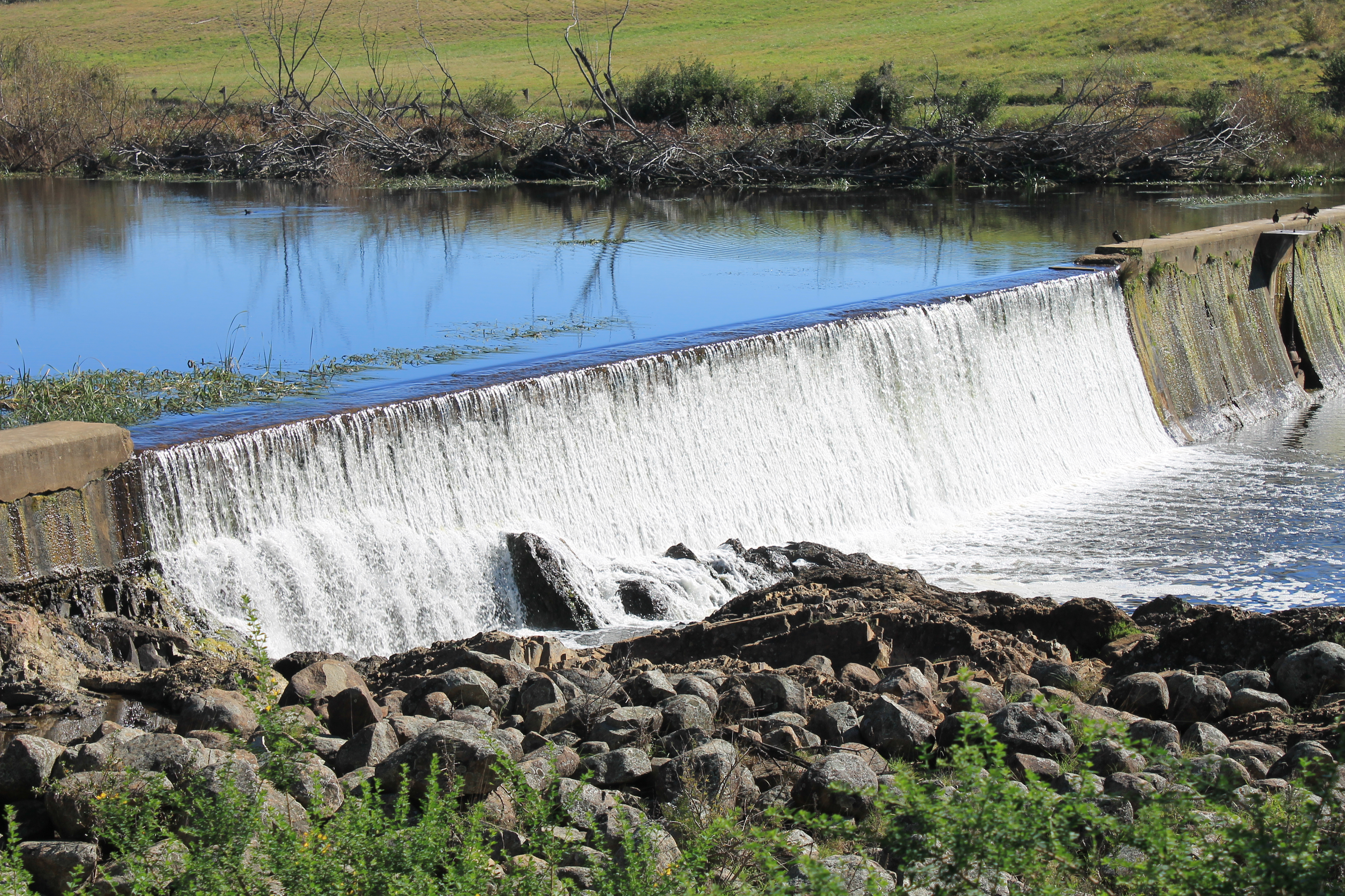 Marsden Weir, Goulburn, New South Wales, with a flow of water over the top